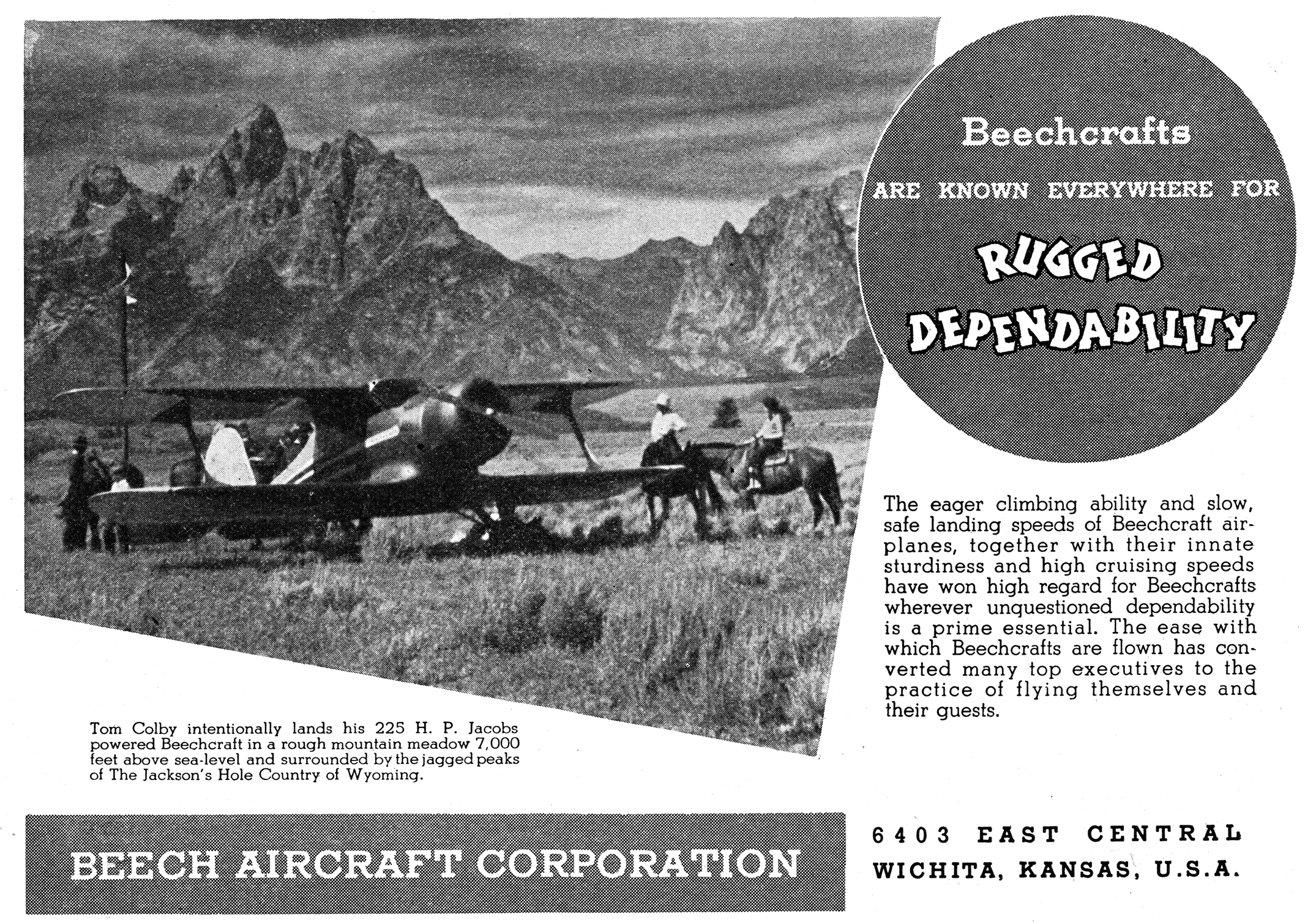 Beech Aircraft Corporation advertisement Model 17 "Staggerwing" 1937